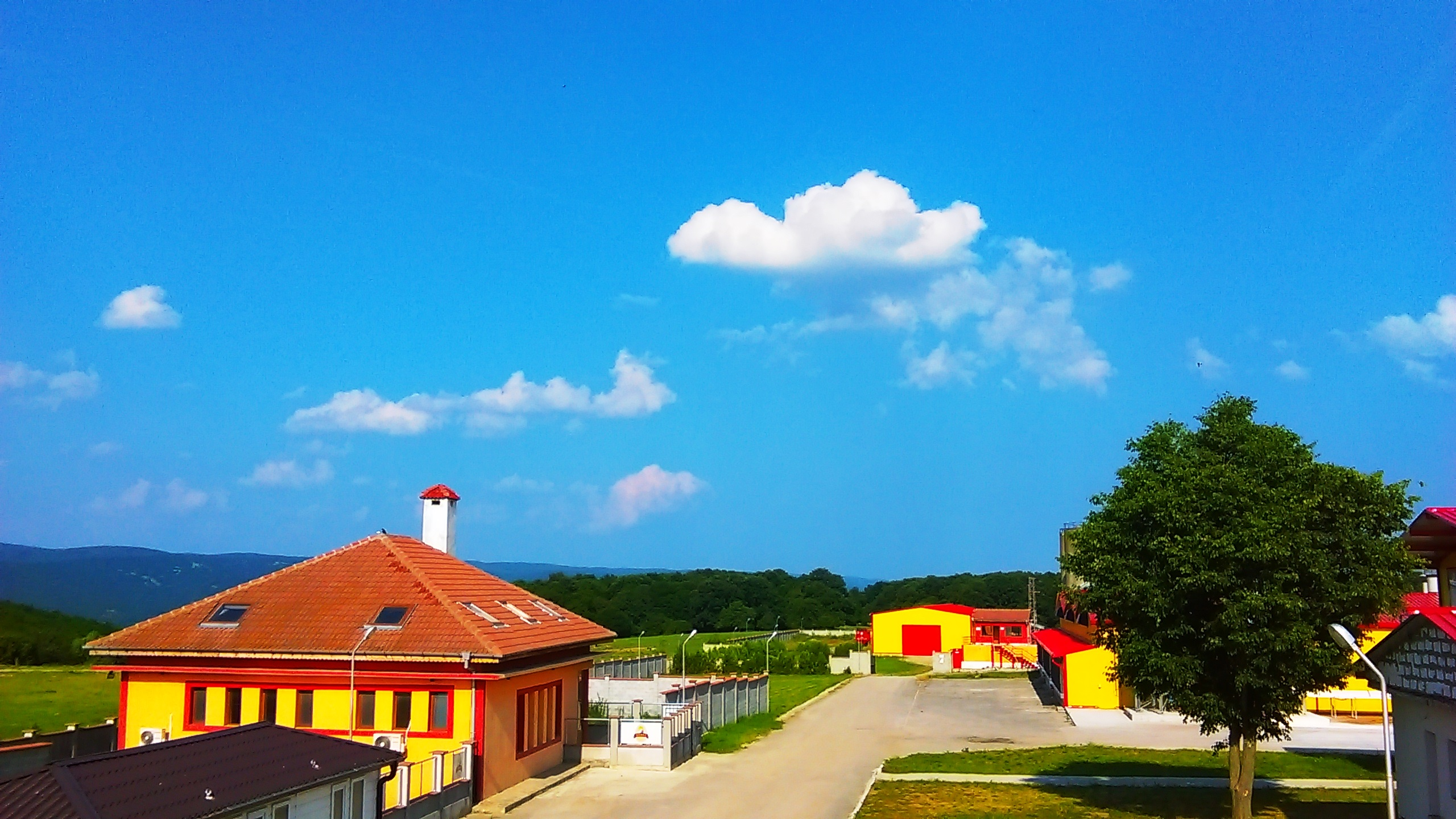 Industrial zone at Prezviter Kozma, a village in targovishte province, Bulgaria